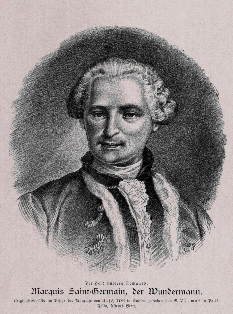 Graf von Saint Germain der Wundermann Europas